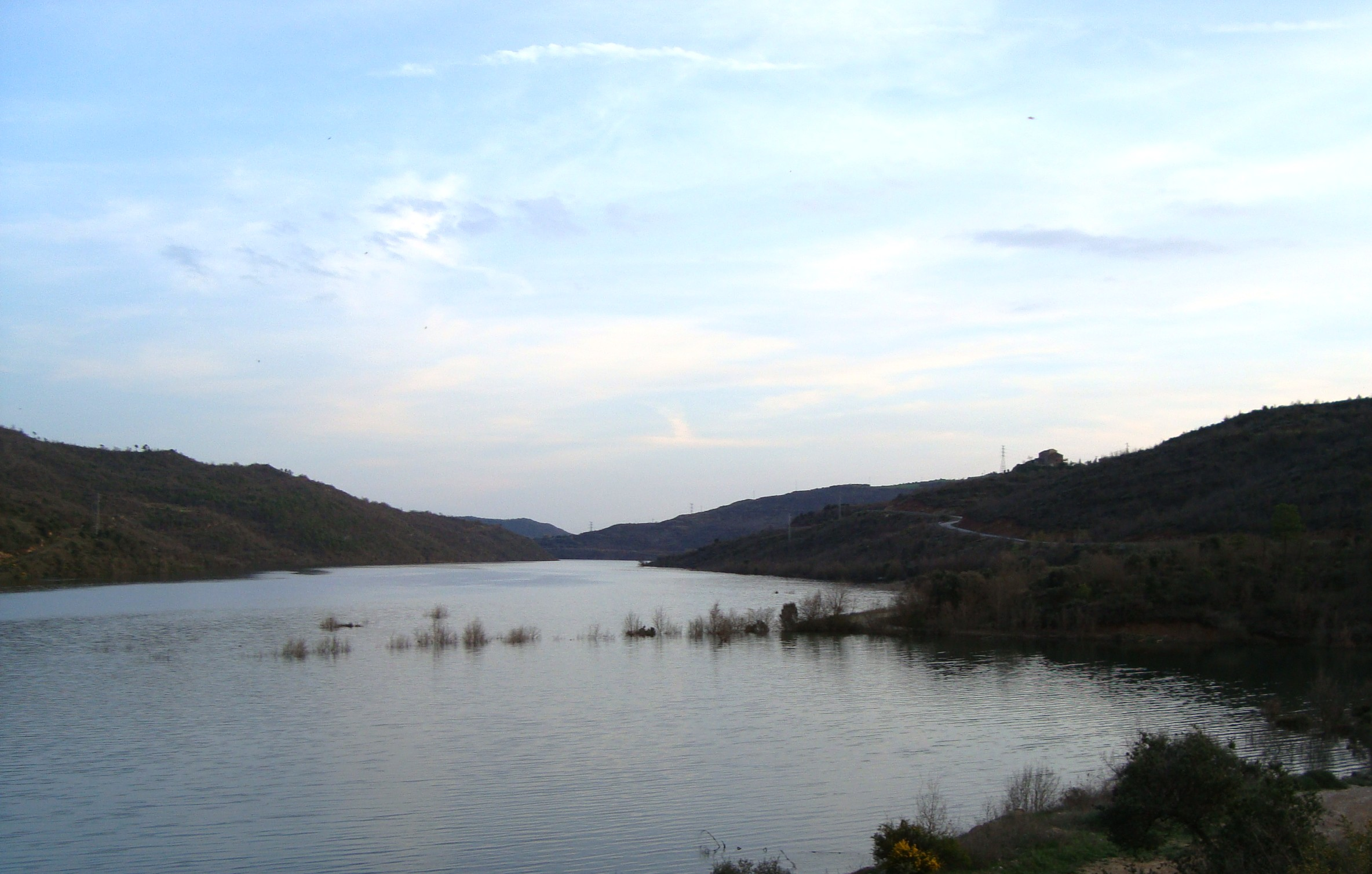 Rialb Reservoir in La Baronia de Rialb (Catalonia)